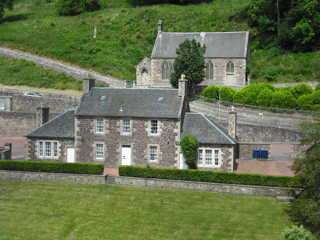 David Dale's house Viewed from rooftop garden on Mill 2. Dale used this house on his visits to the village.